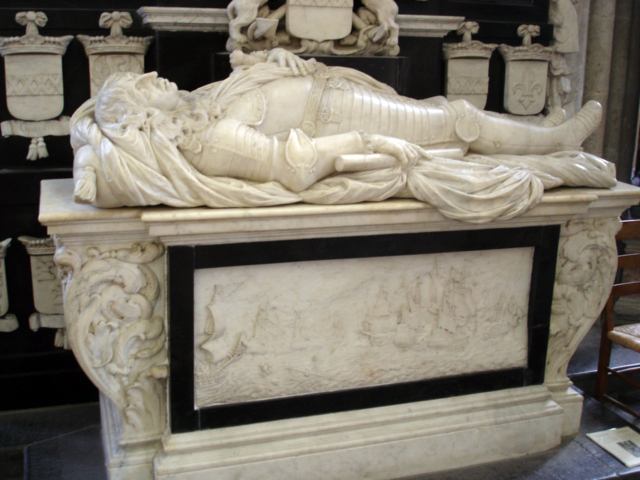 Tomb of admiral Van Gendt